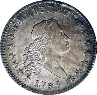 1795 Half Dollar, Flowing Hair, Obverse